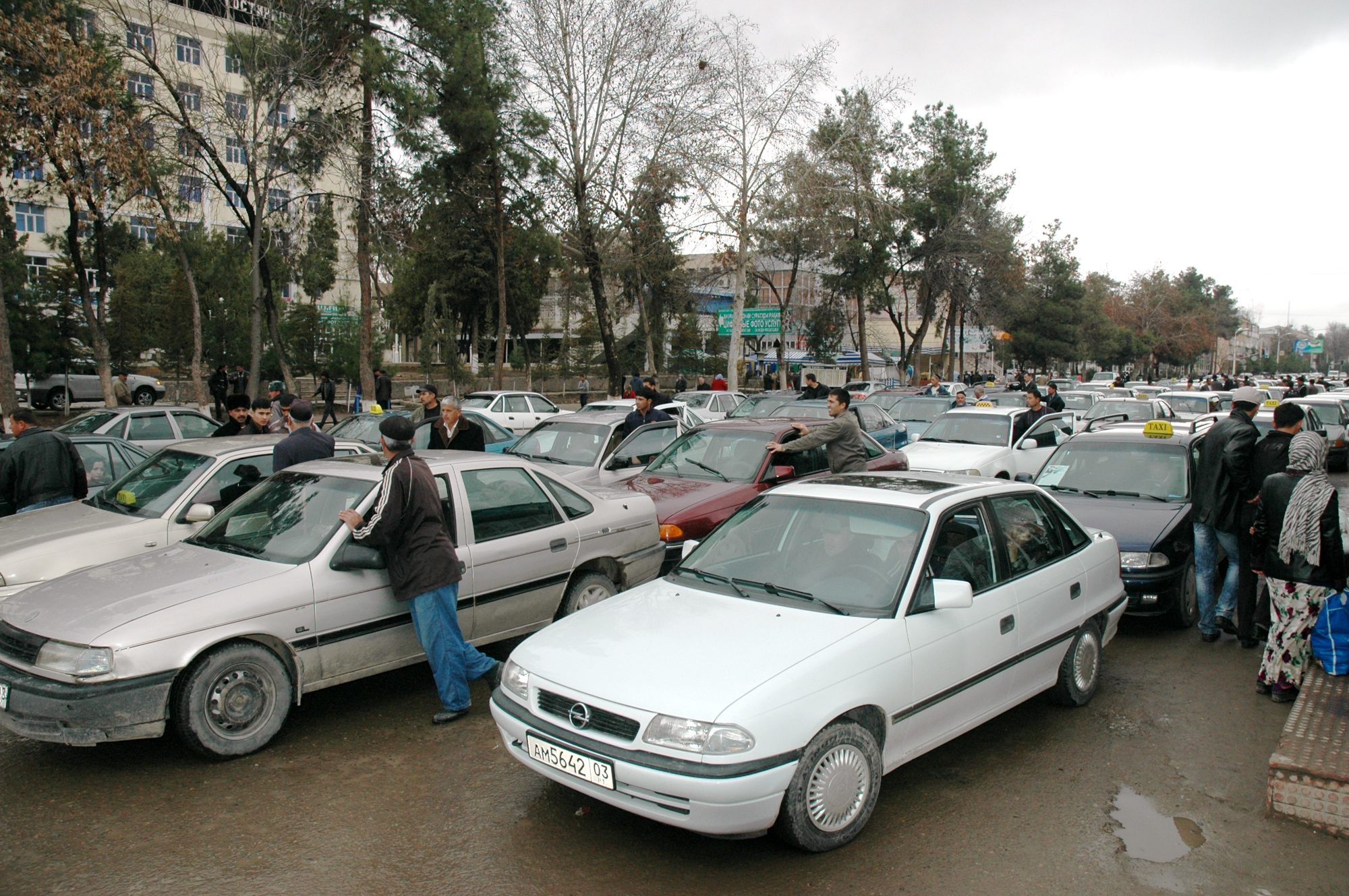 Taxi station in Qurghonteppa (Tajikistan)